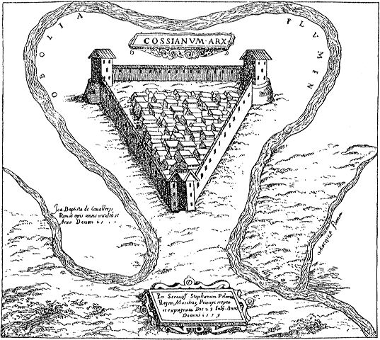 Kozyany Castle